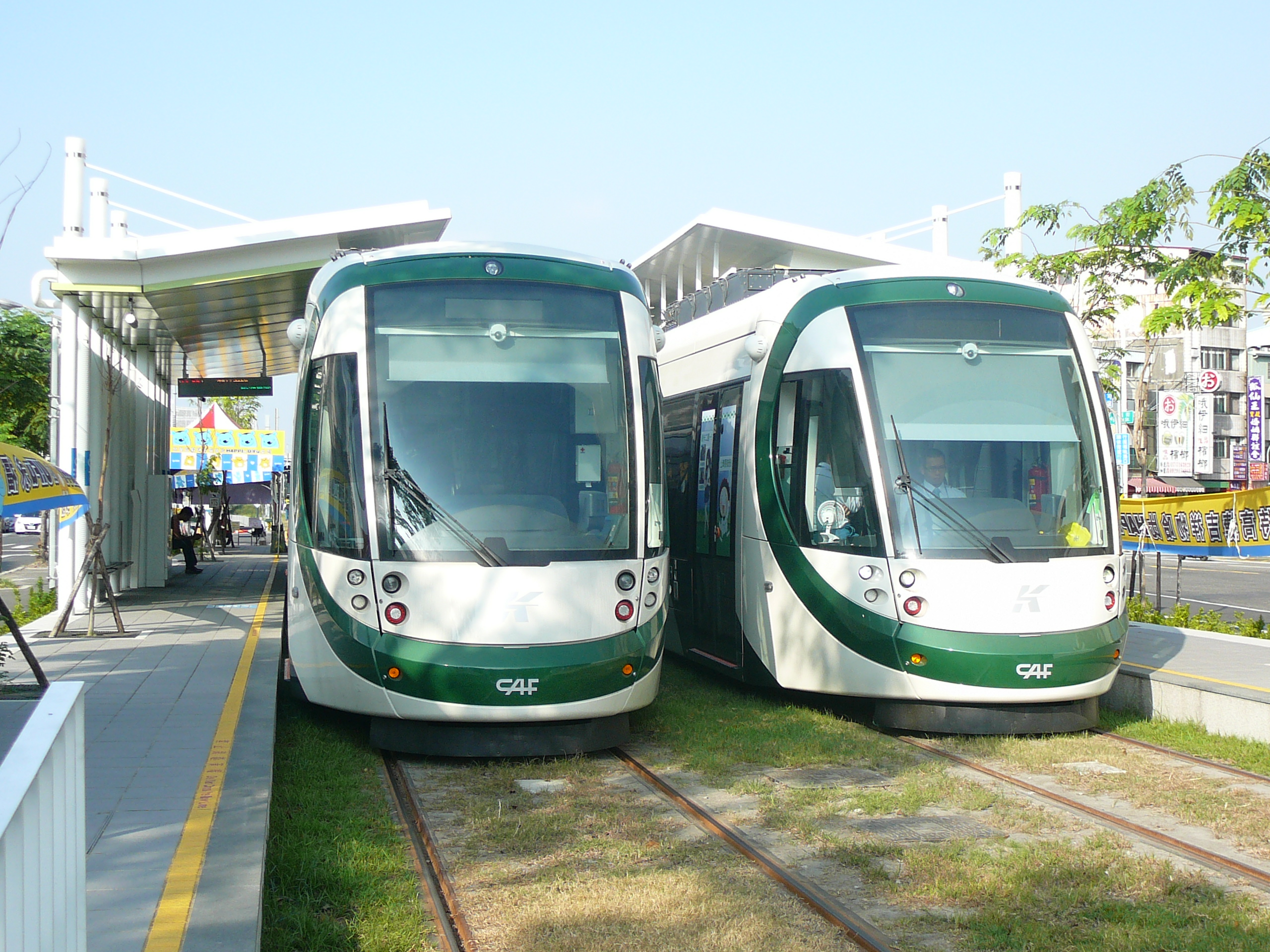 Kaohsiung LRT Caf Urbos 3 Tram Trains (Lizihnei Station)